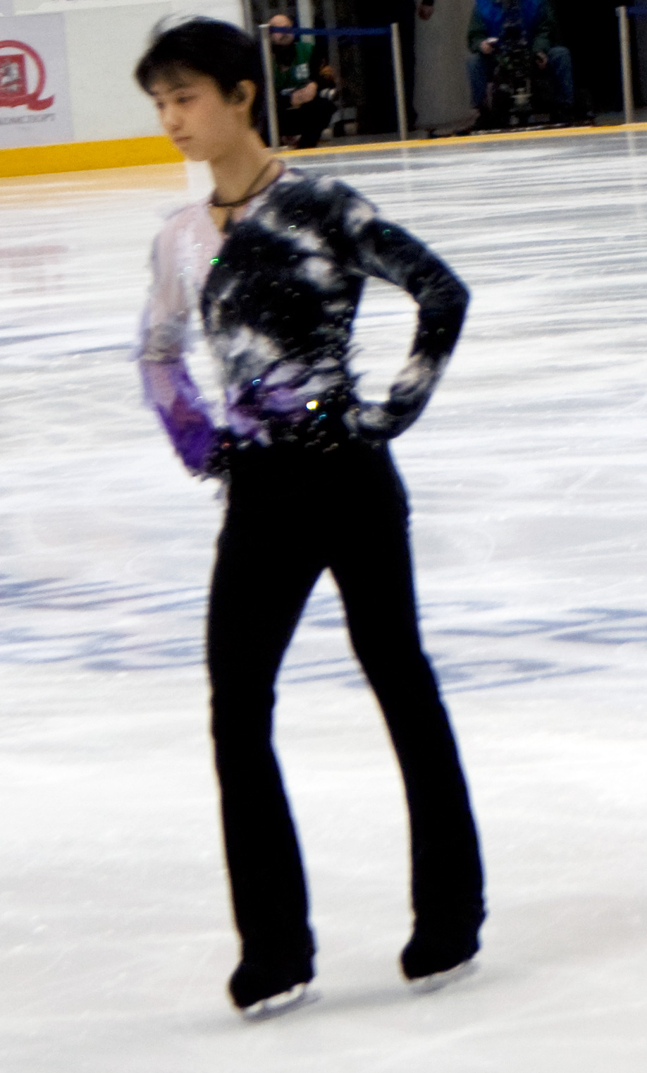 2010 Cup of Russia, short program.